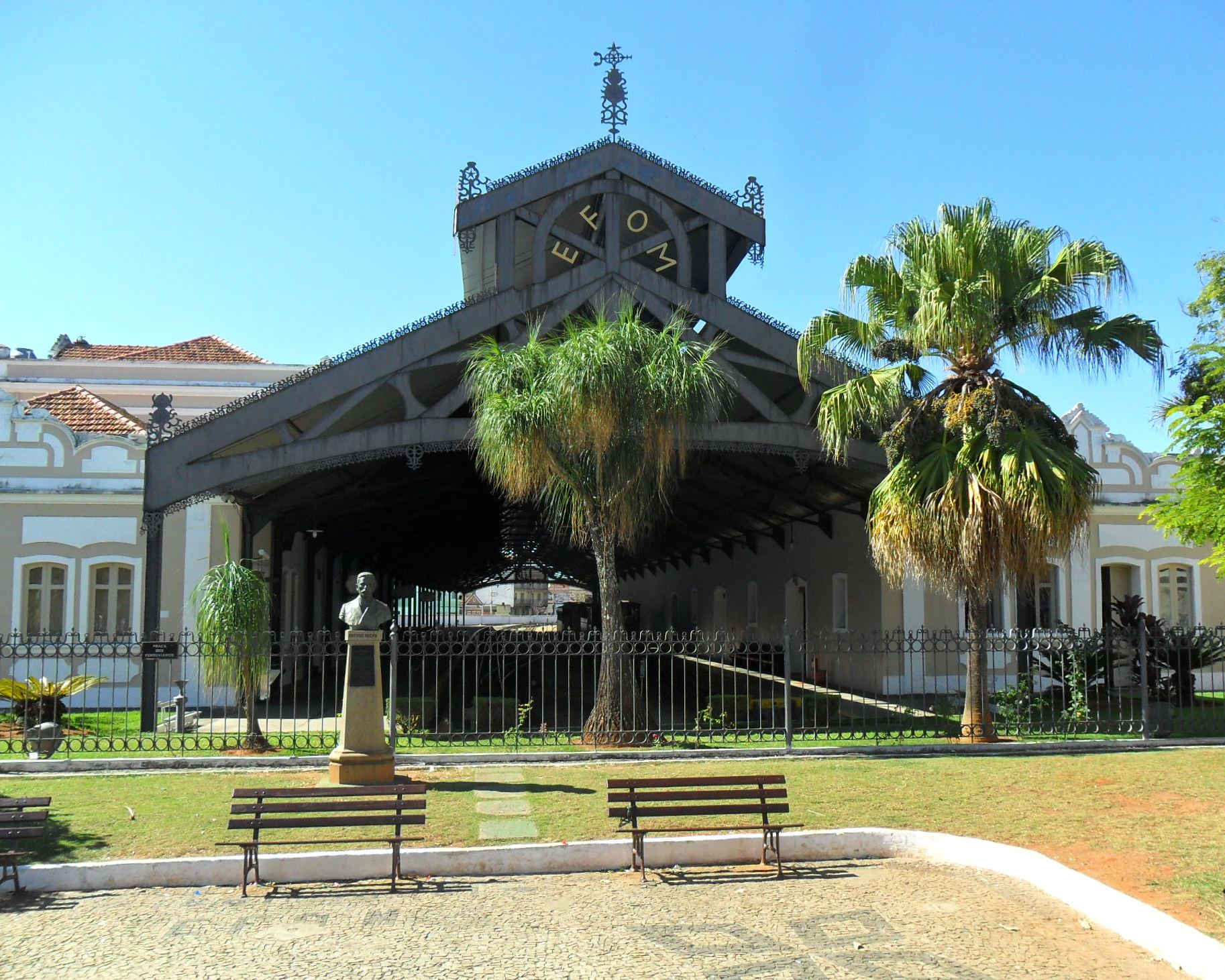 Railroad station in São João del Rei, Minas Gerais, Brazil